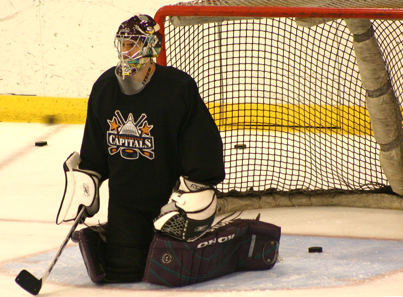 Frederic Cassivi @ Washington Capitals 2005 Training Camp, today playing for Hershey Bears